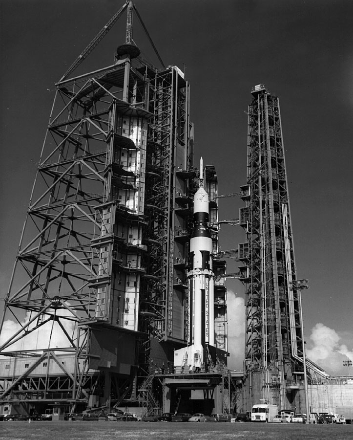 Saturn SA-7 on the launch pad